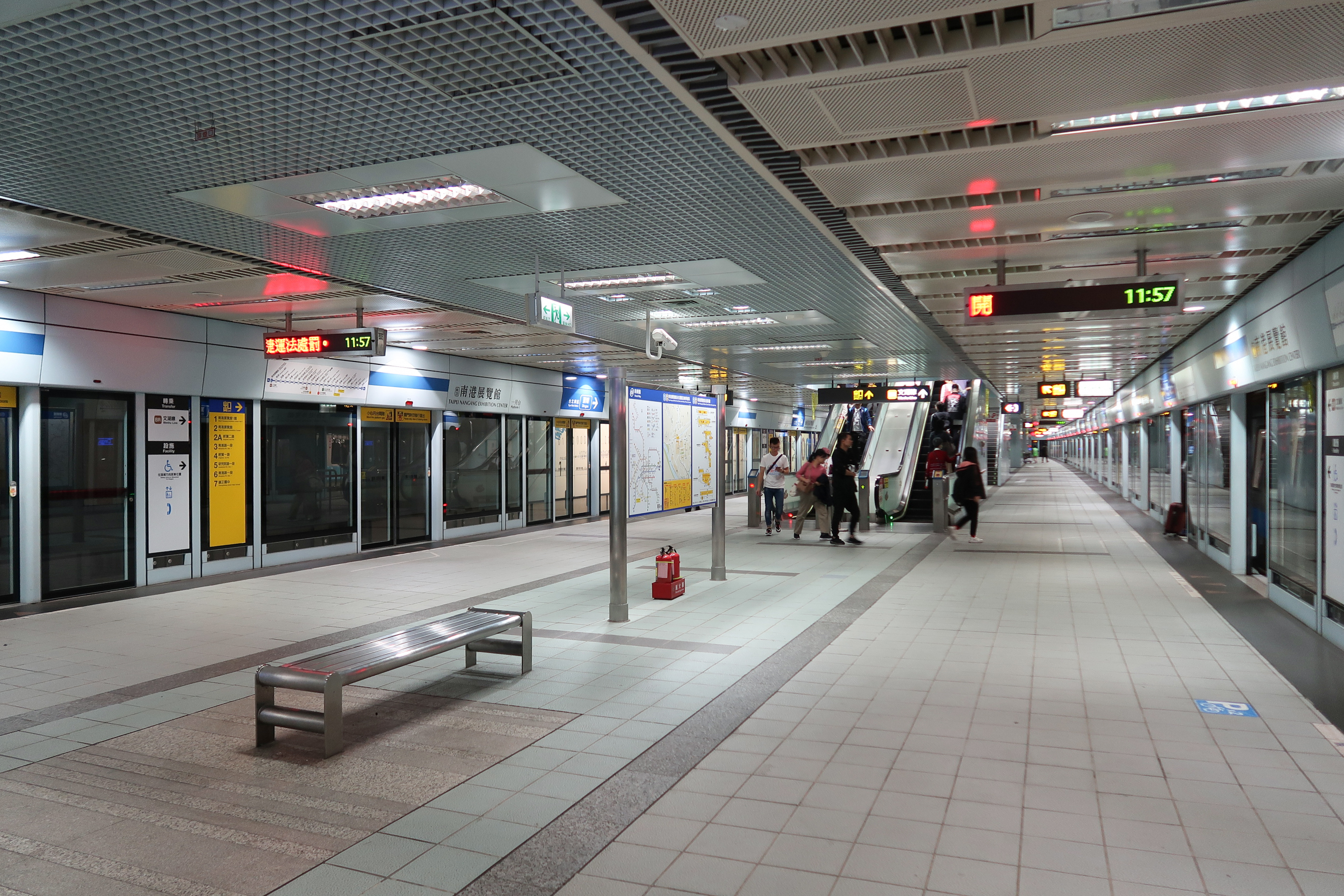 Platforms at Taipei Nangang Exhibition Center Station